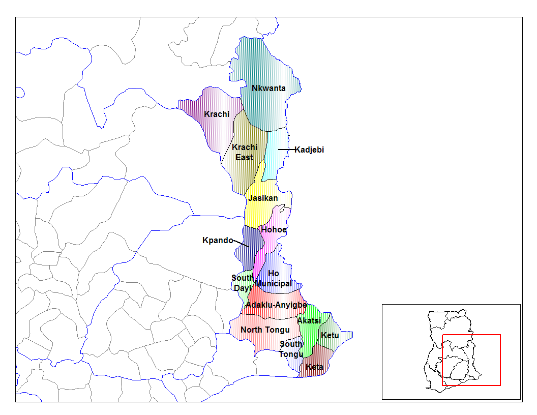 Map of the districts of the Volta region of Ghana. Created by Rarelibra for public domain use. Created using MapInfo Professional v7.5 and various mapping resources.